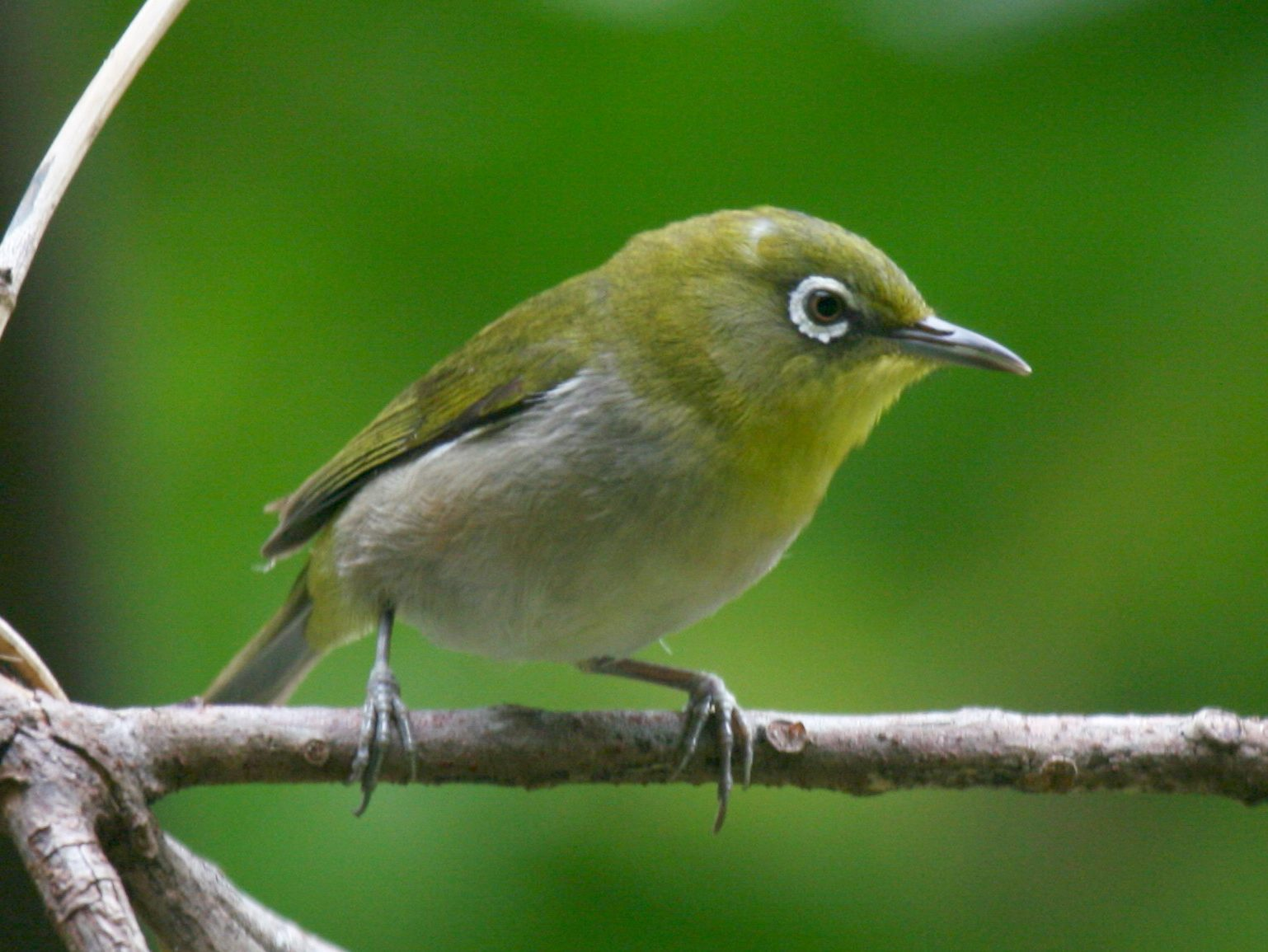 Japanese White-eye (Zosterops japonicus) - Kauai, Hawaii